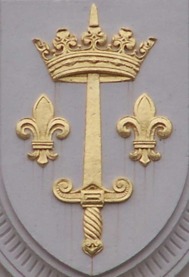 Coat of arms of Joan of Arc. Saint Joan of Arc church, Versailles, Yvelines, France.